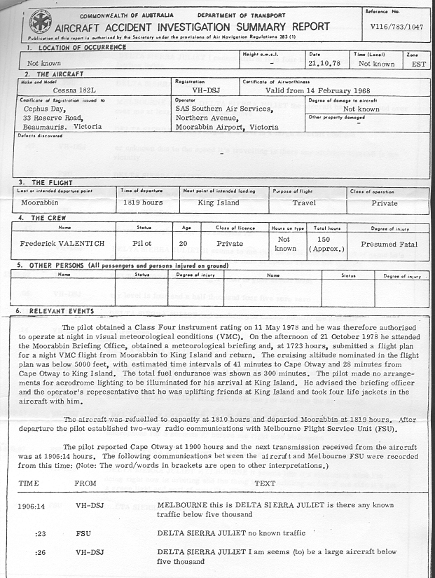 Australian Department of Transportation report on the Valentich Disappearance (page 1).